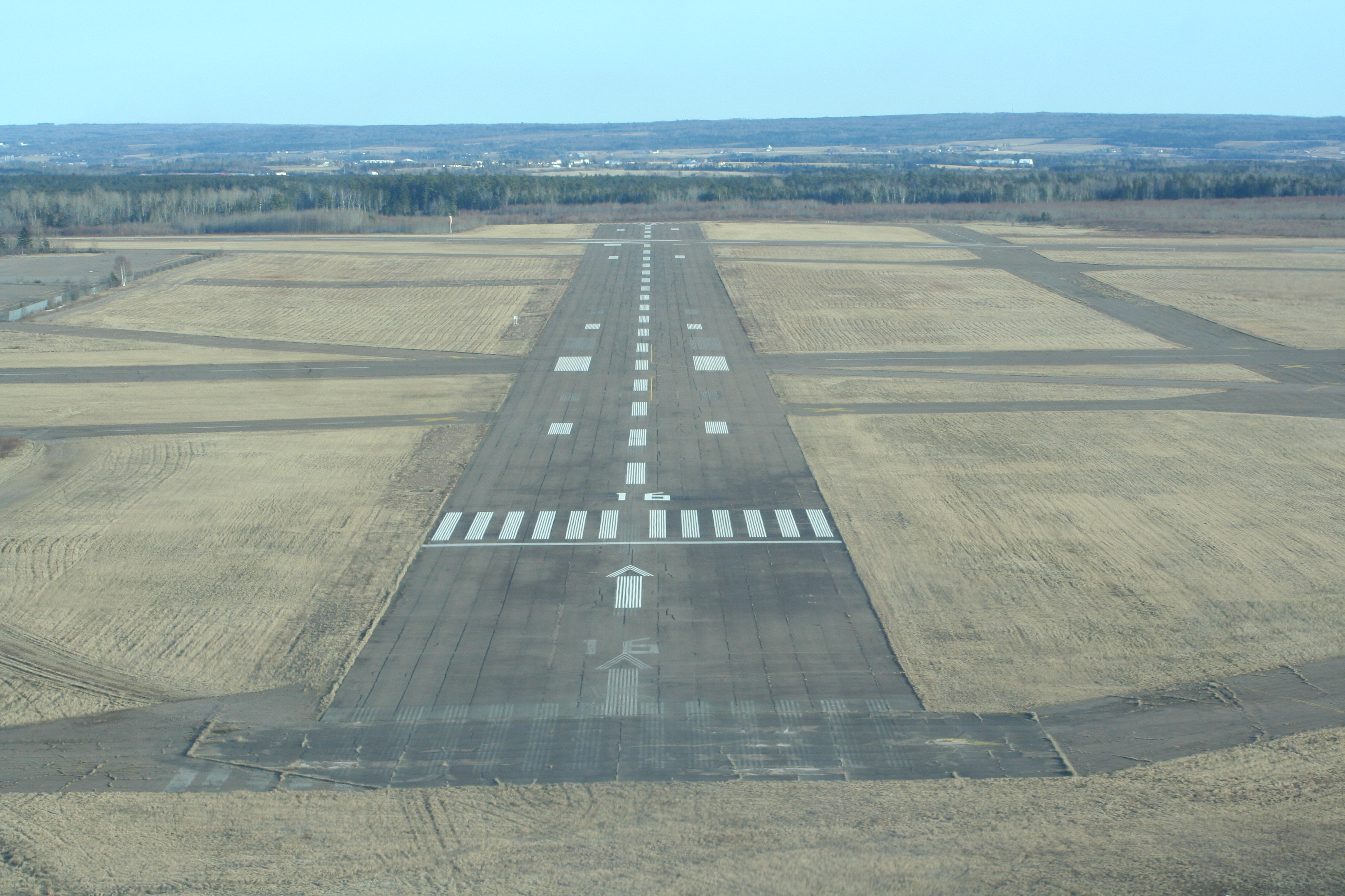 Photograph of runway 16 at Debert Airport, Nova Scotia (CCQ3), while on final for landing.